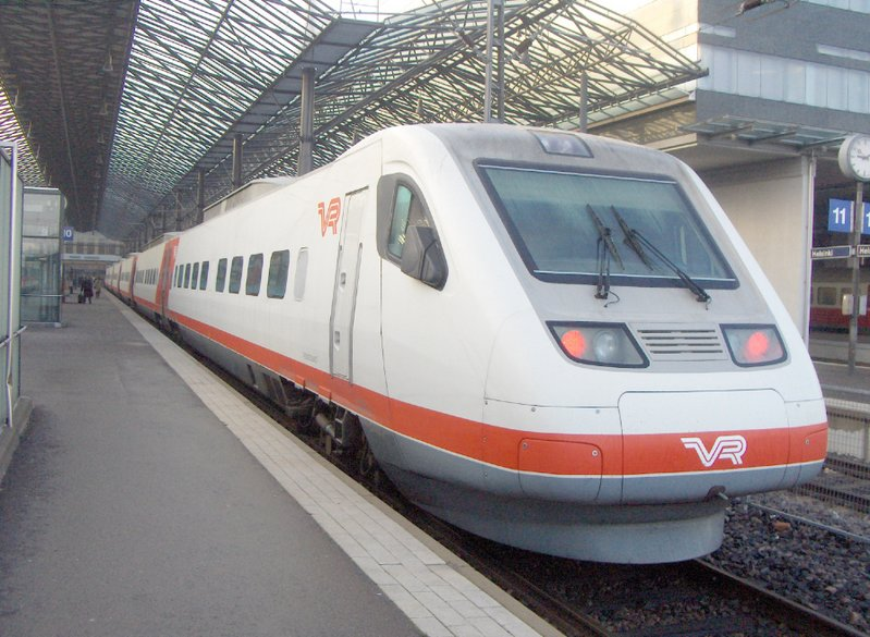 A VR Class Sm3 Pendolino electric multiple unit at the Helsinki Central railway station, Helsinki, Finland